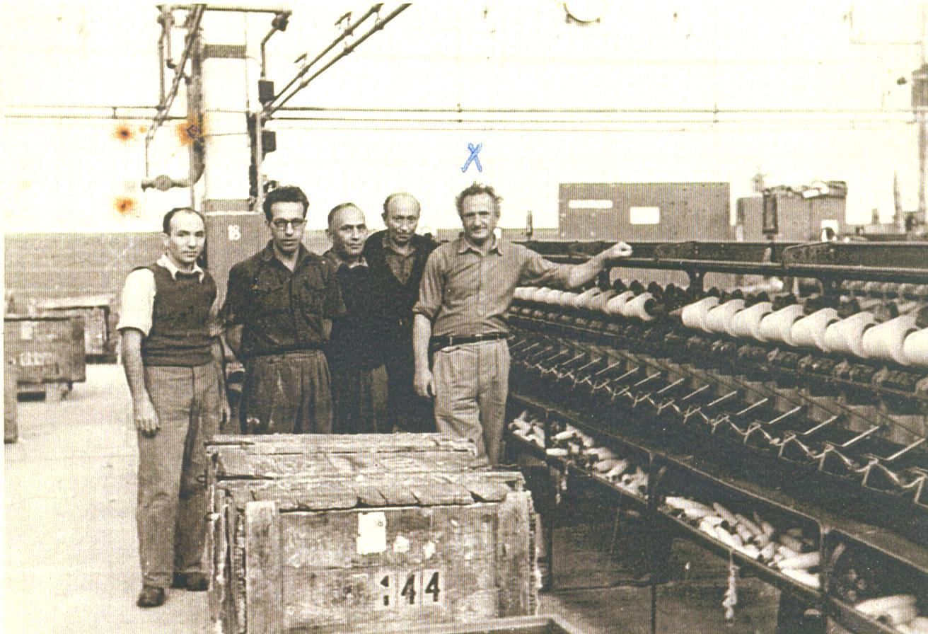 Industry in Israel